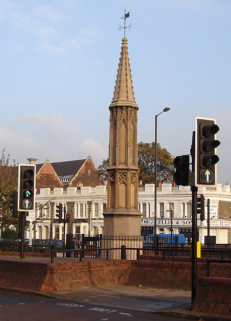 Tottenham High Cross, Haringey, London. 22 November 2005. Photographer: Fin Fahey.